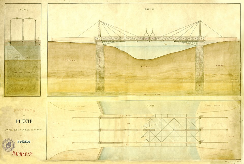 Project for a bridge over Matanza River ("Riachuelo") in Barracas, Buenos Aires. The bridge was built in 1862 but it collapsed soon after. Pueyrredón designed a new bridge that was opened in 1871, almost one year after his death.